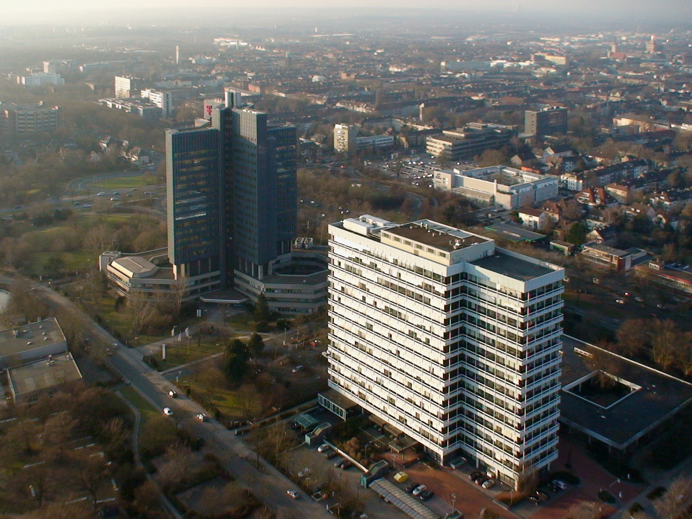 Dortmund, Stadtkrone-West. View from the TV tower. Behind the Telekom tower the crossroads B 1 / B 54 and the Ruhrallee-West housing area.